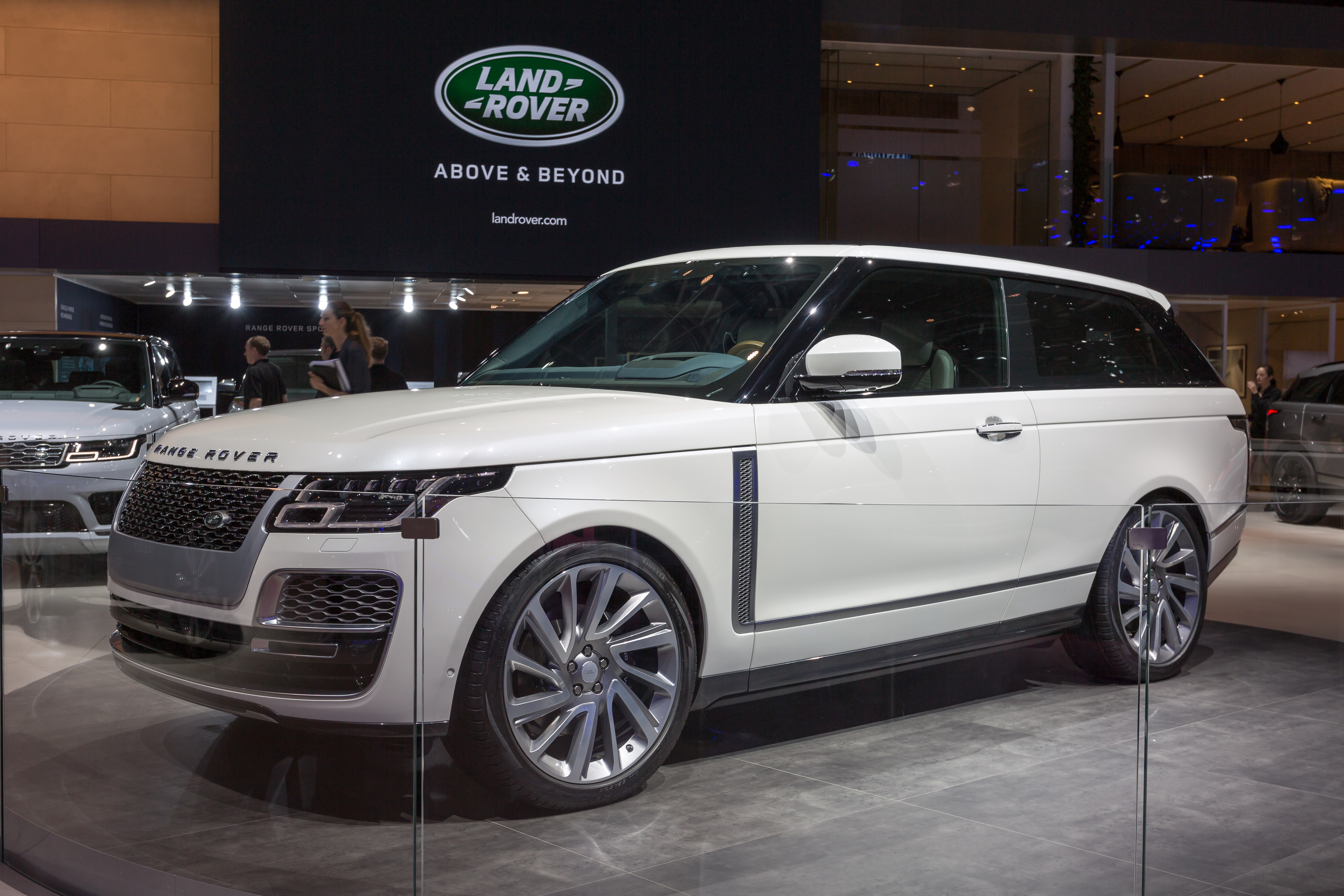 Land Rover, Mondial Paris Motor Show 2018